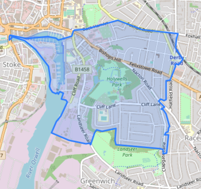 Open Street Map with area shaded blue for Gainsborough Ward, Ipswich This map of South East Ipswich was created from OpenStreetMap project data, collected by the community. This map may be incomplete, and may contain errors. Don't rely solely on it for navigation.